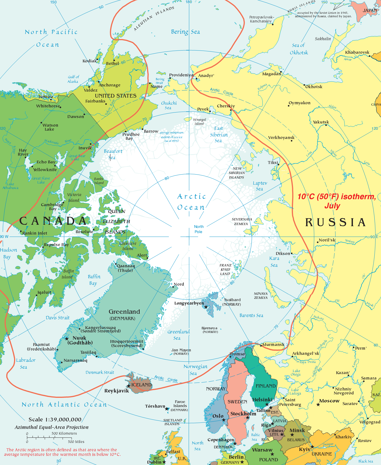 United States (Alaska) Denmark (Greenland) Canada Russia Norway